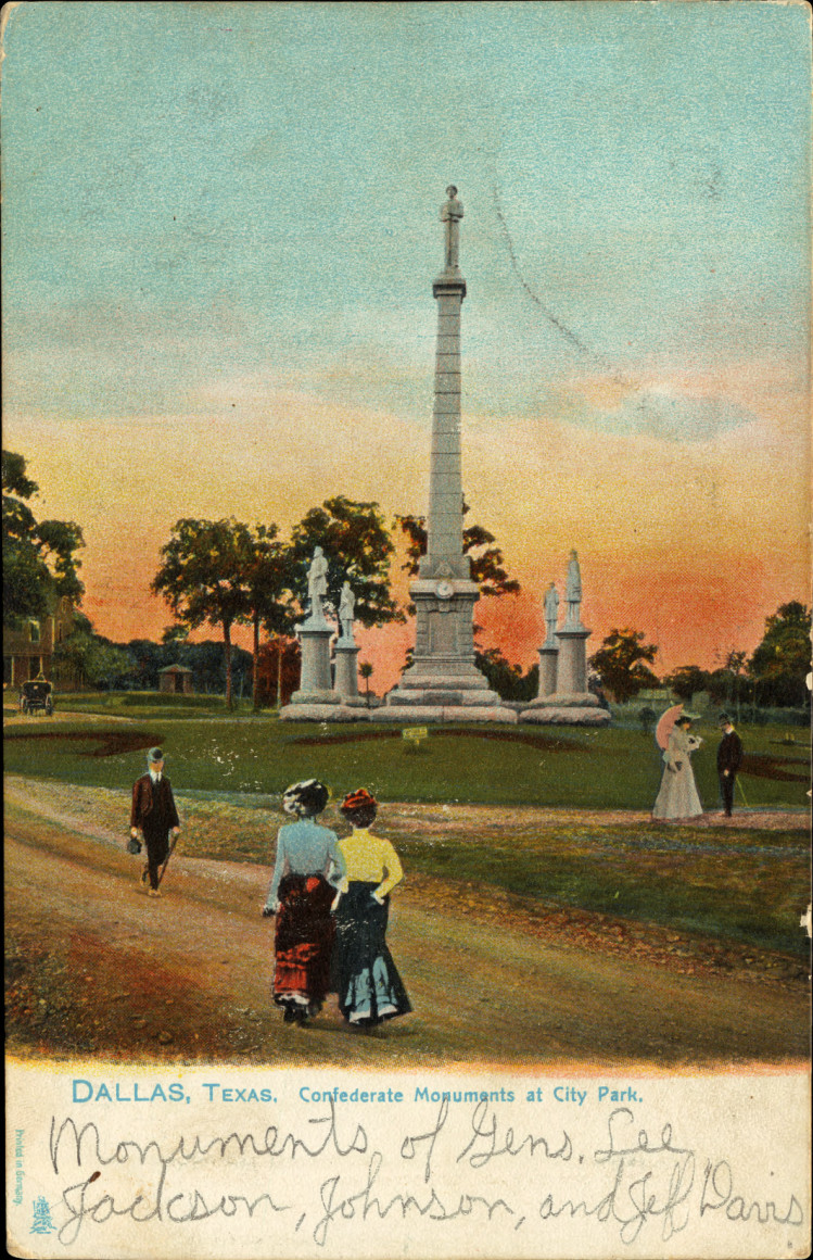 Confederate Monument, City Park, Dallas, Texas